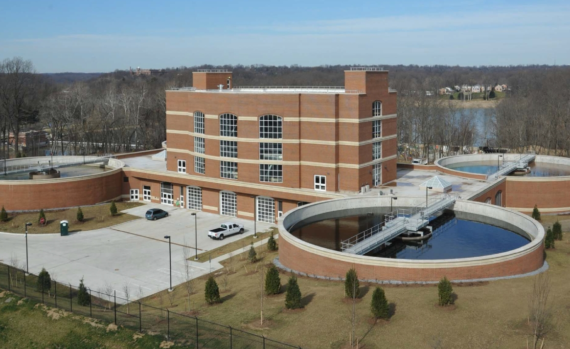 The Residuals Processing Facility, completed in 2011, at Dalecarlia Reservoir in Washington, D.C., in the United States. The facility is part of the Washington Aqueduct.